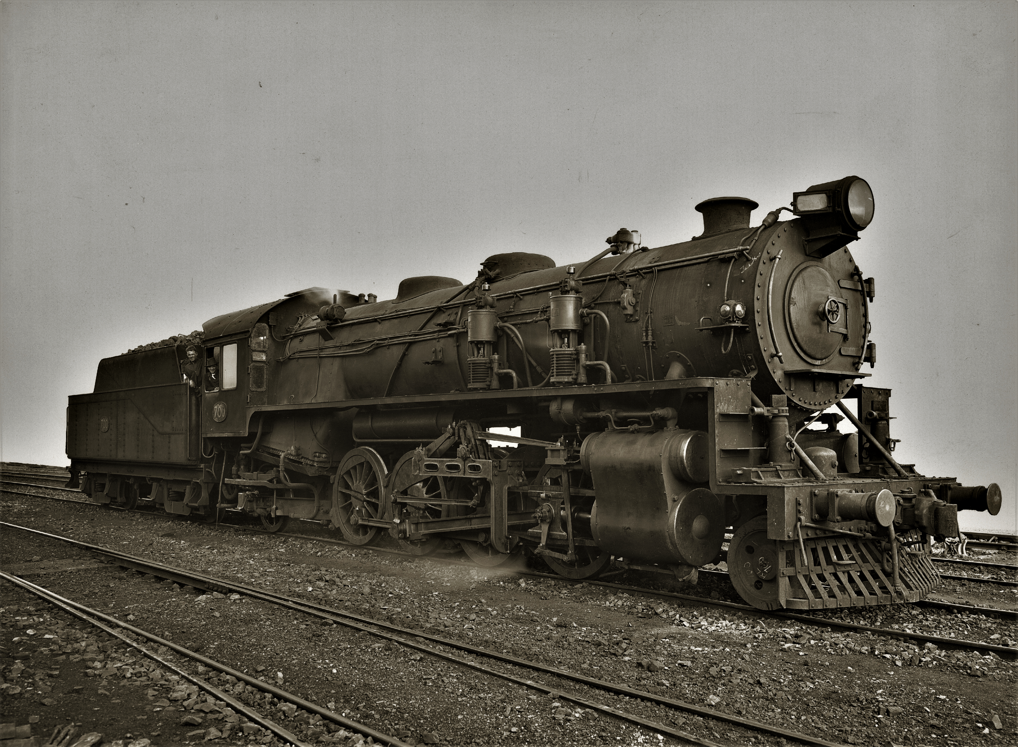 South Australian Railways 700 Class Locomotive No. 700. 1926. State Library of South Australia B 3993.